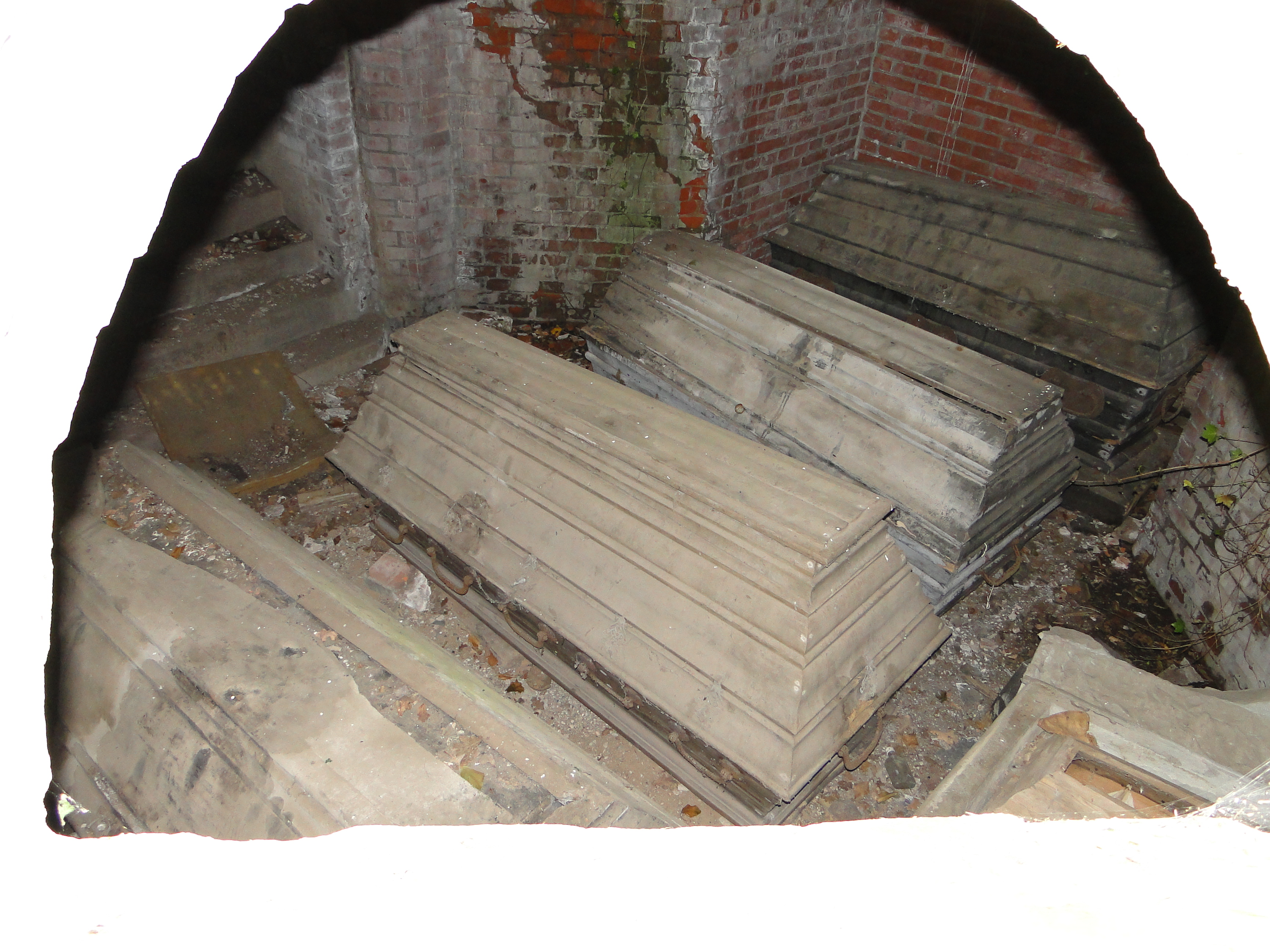 Burial vault of the Barner family on the church yard in Bülow, district Ludwigslust-Parchim, Mecklenburg-Vorpommern, Germany